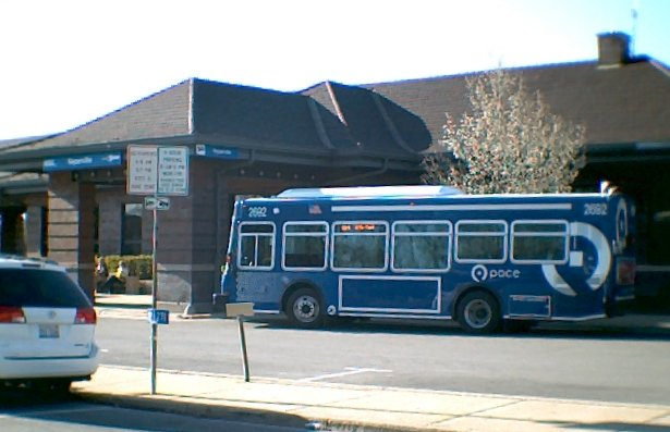 Pace bus #2692, an ElDorado National EZ Rider II in front of the Naperville Amtrak-Metra station.